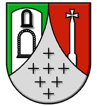 Coat of arms of Büchel